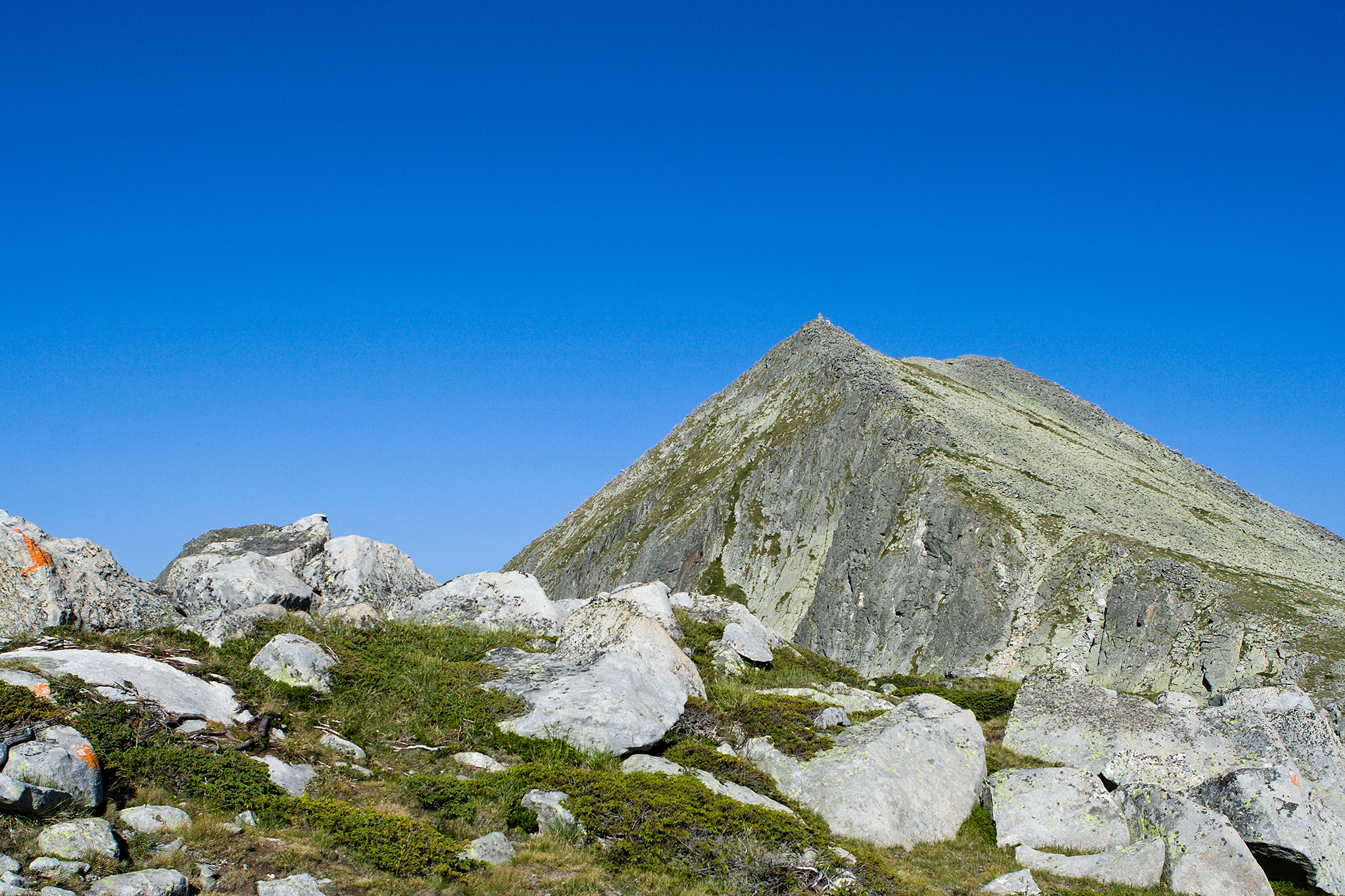 Momin Dvor peak, as seen from the alpine hut "Tevno ezero"